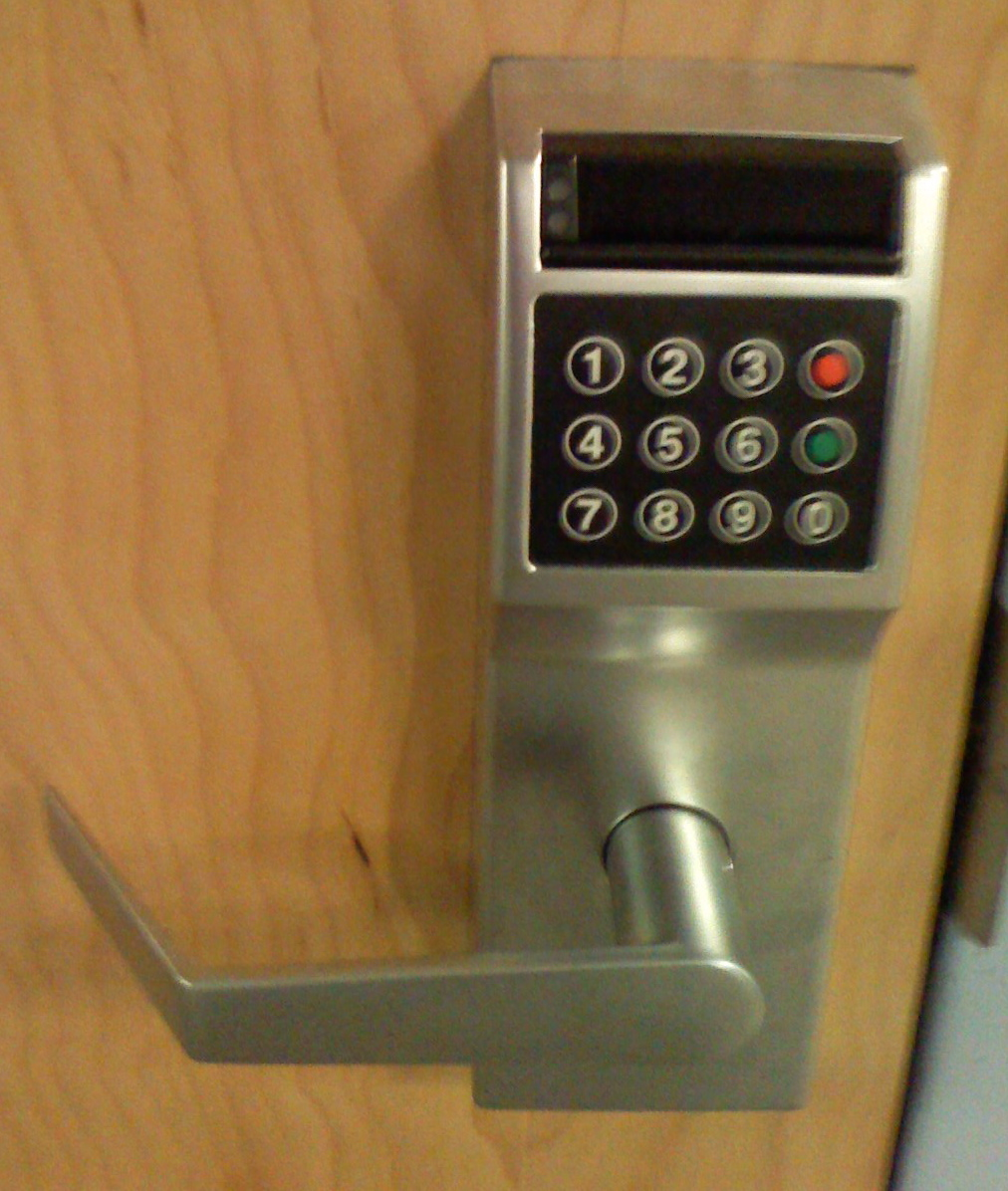 A magnetic keycard lock manufactured by Onity Inc. installed at Humboldt State University